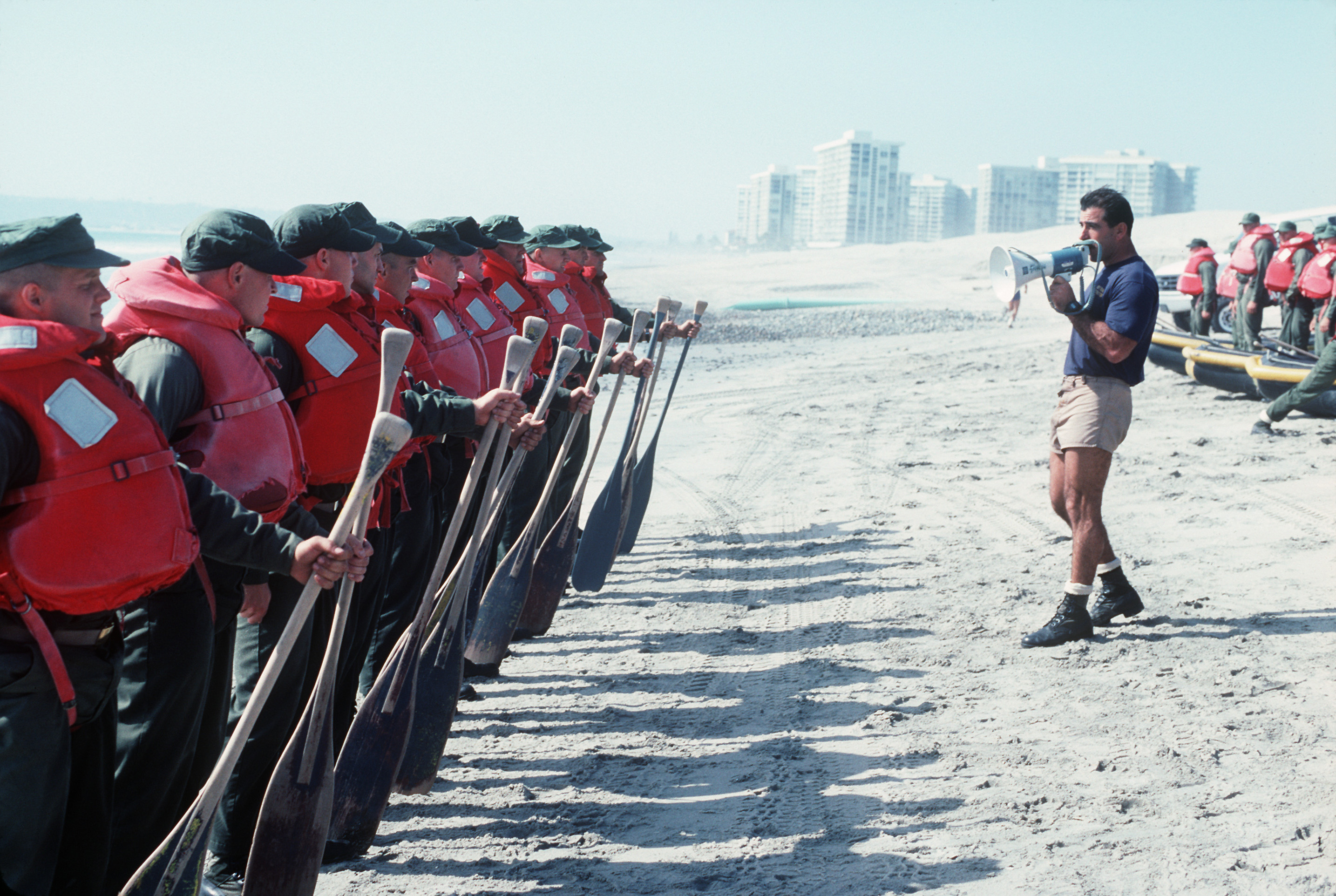 Sea-Air-Land Specialists (SEALS) candidates at the Amphibious Base listen to last minute instructions being given by the instructor, Engineman First Class (EN1) Joe Valderrama, before taking to the water in their rubber boats during a timed training exercise in basic underwater demolition sea-air-land (BUDS) training class 183.